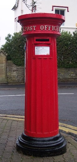 Victorian fluted pillar box, Great Malvern, Worcestershire